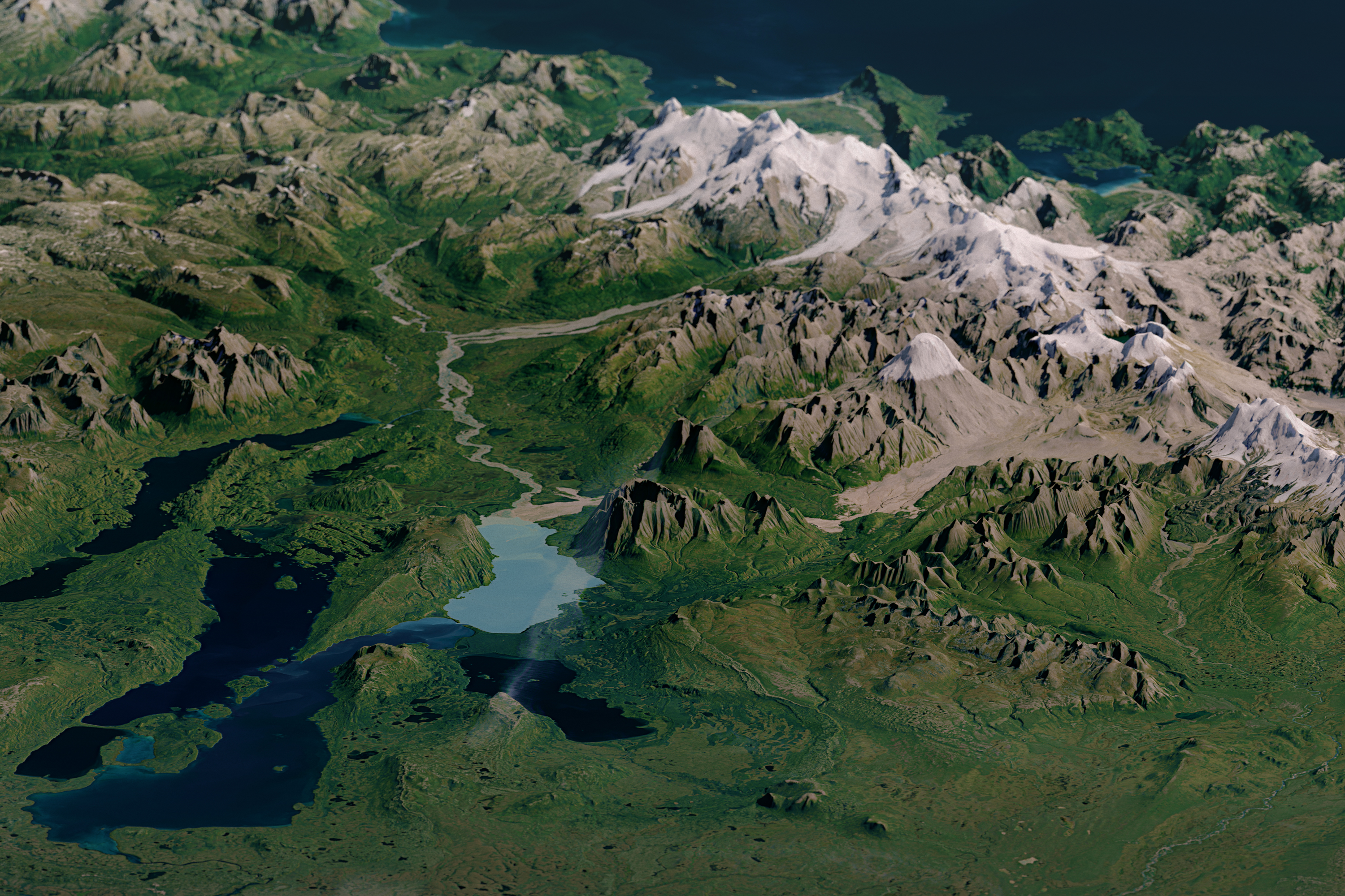 Natural-colour image of Katmai National Park with the Landsat data overlaid on a digital elevation model (created with data from the ASTER instrument on NASA’s Terra satellite). The model gives a three-dimensional sense of the landscape.